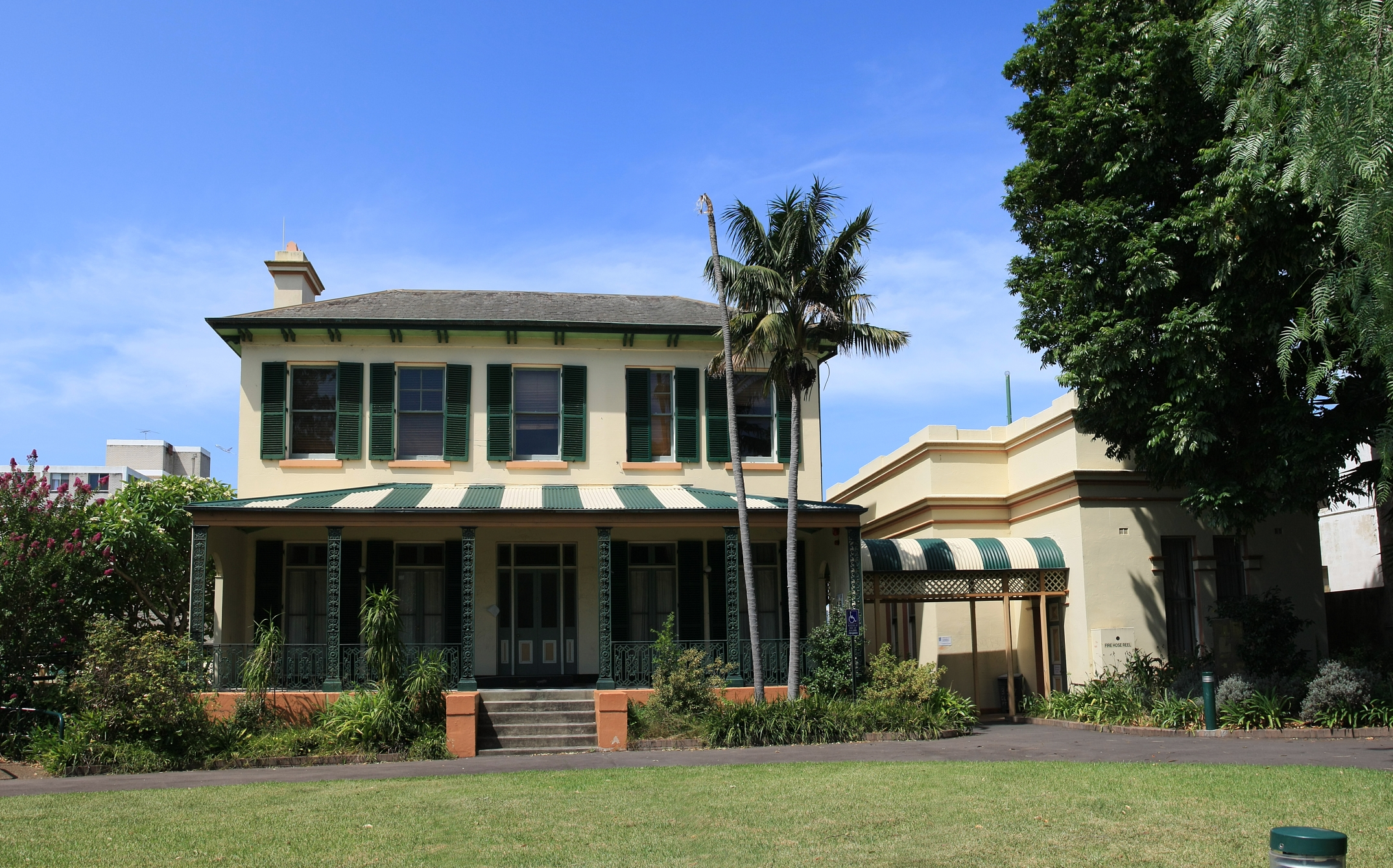 Bidura, historical house, Glebe Point Road, Glebe, Sydney